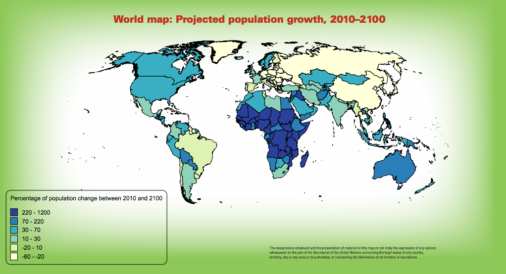 Mannfjöldaþróun 2010-2100 eftir heimshlutum